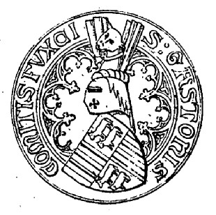 Gaston III de Foix-Béarn